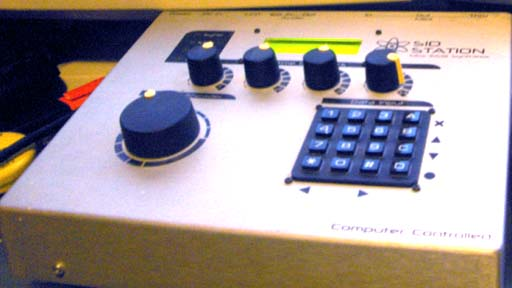 Photo of a SidStation